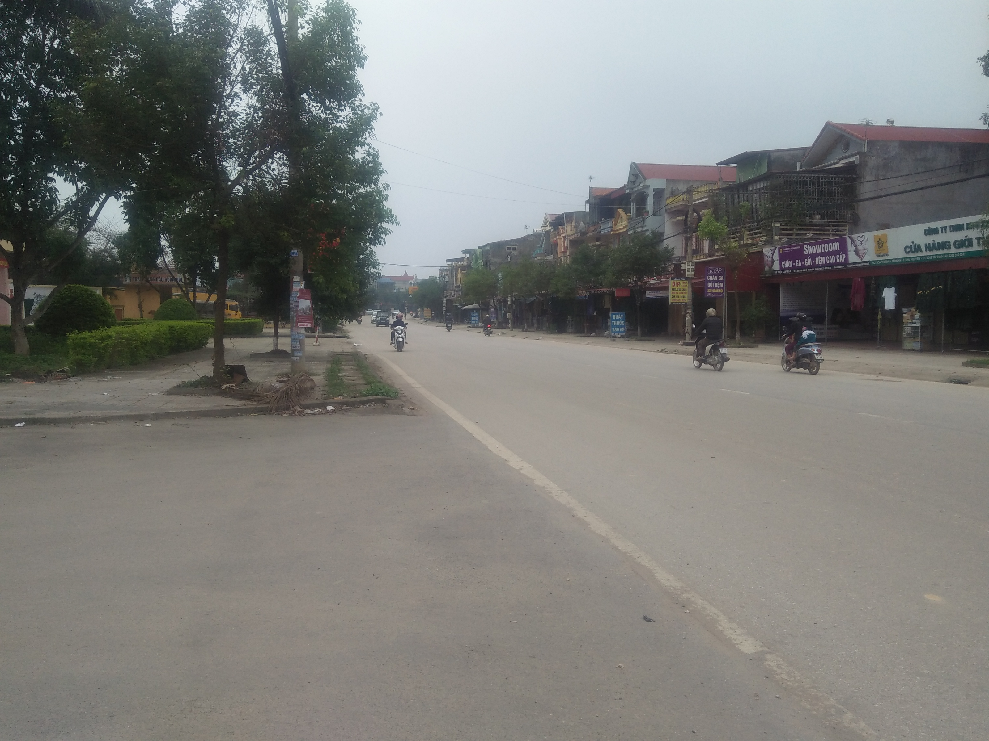 Đường Lê Quý Đôn, Đồng Hỷ